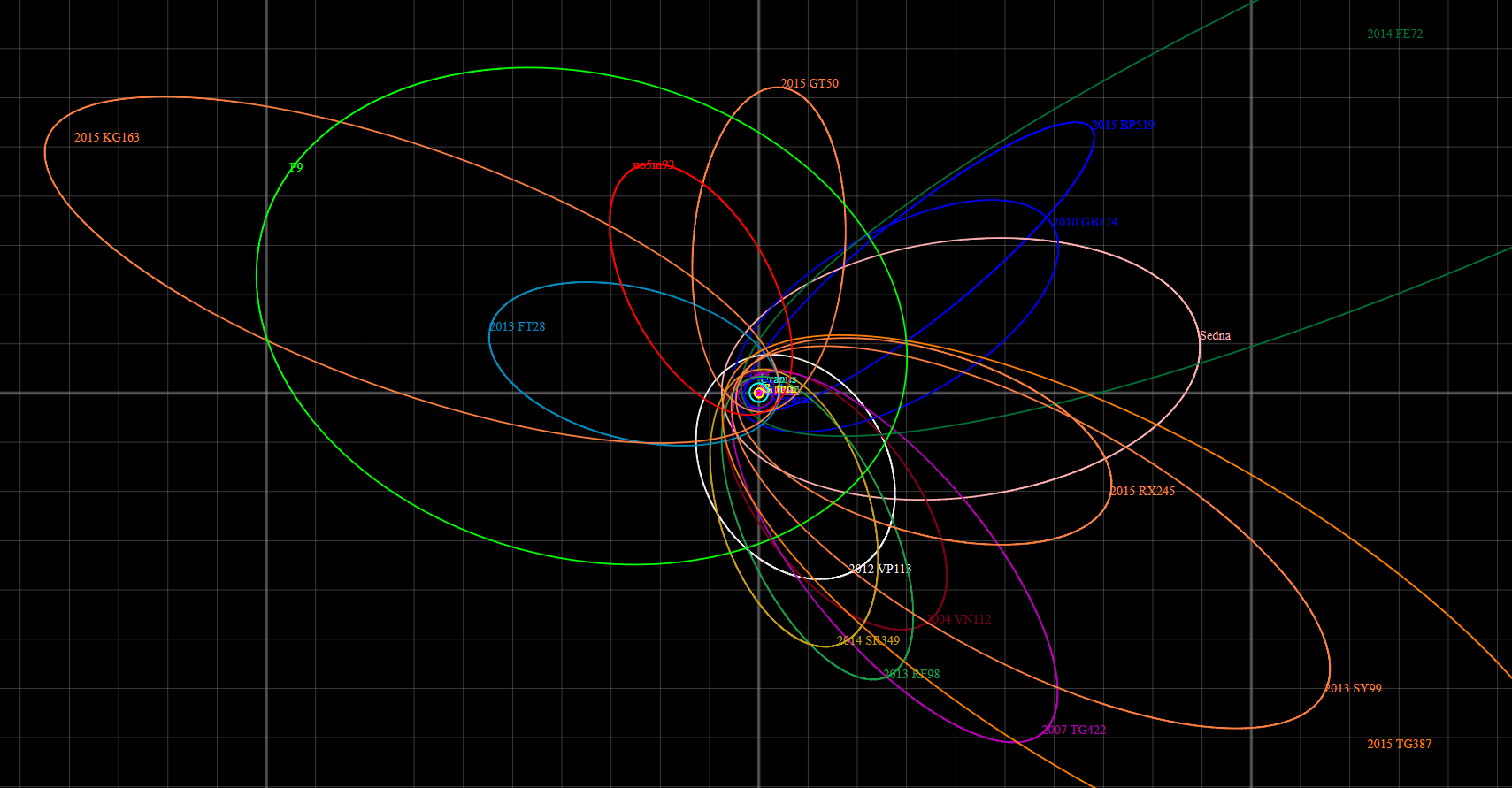 Orbital diagram of Planet Nine (limegreen color, labelled "P9") and several extreme trans-Neptunian objects (see list). Each background square is 100 AU across.